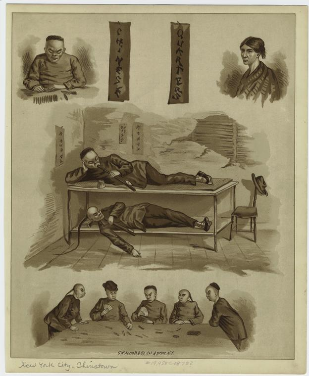 Template:Chinese Quarters, New York City, c.1878, including a depiction of opium smoking